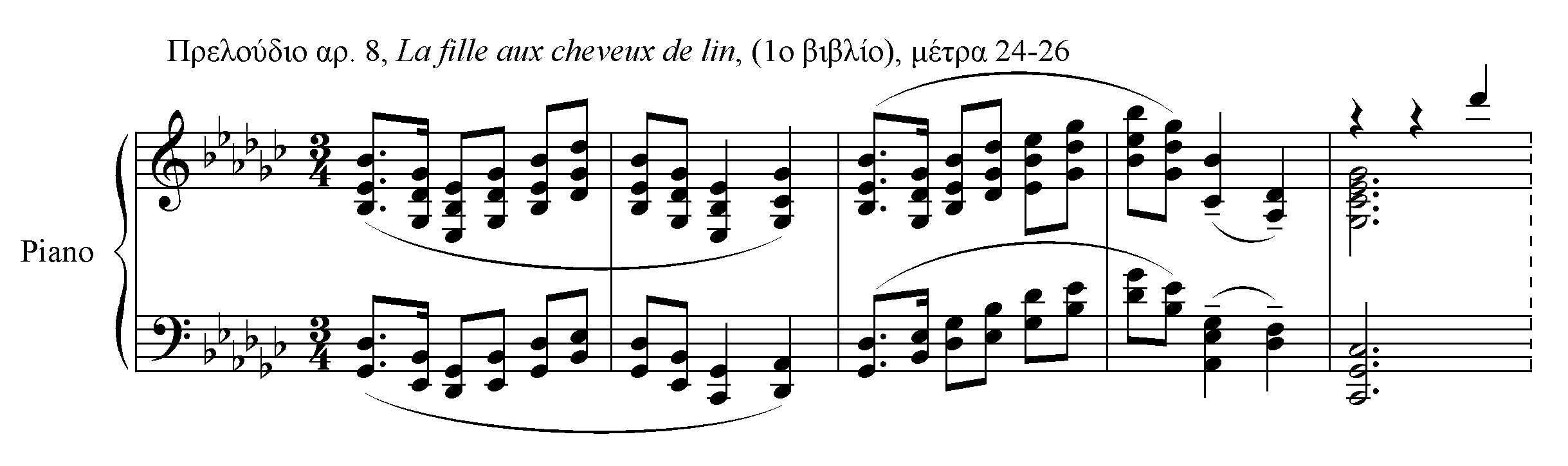 Debussy La fille aux cheveux de lin